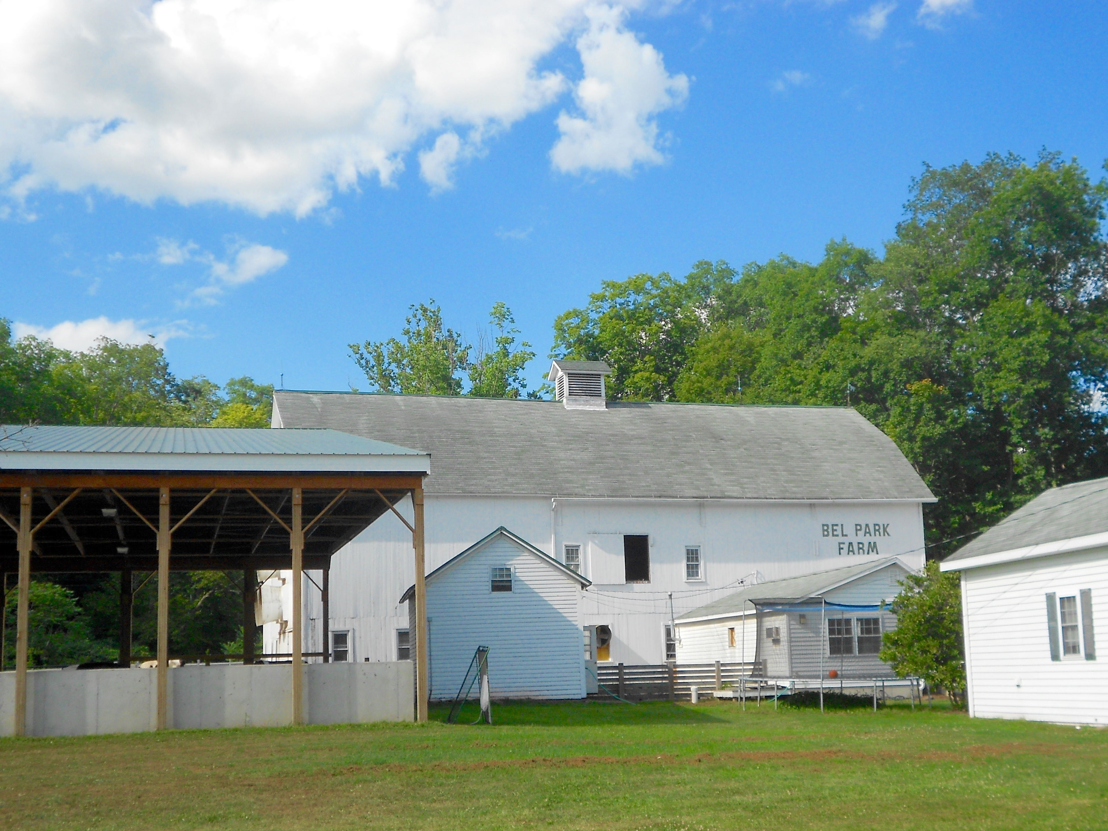 Bel Park Farm in Great Bend Township, Susquehanna County, Pennsylvania. 4.7 miles east of I-81 on PA 171